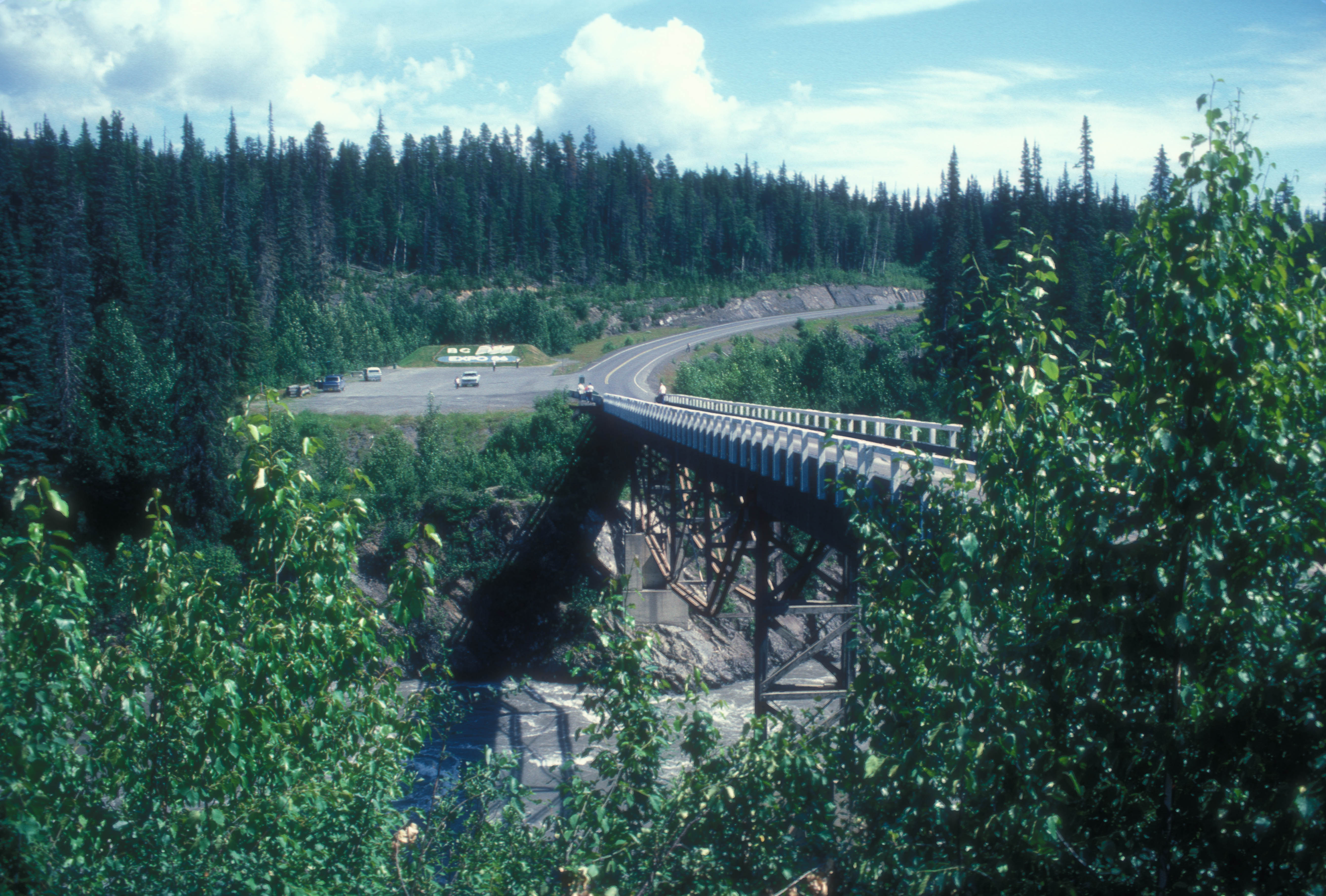 NASS RIVER BRIDGE: OVER NASS RIVER ON CASSIAR HIGHWAY #37 WHICH RUNS FROM TERRACE TO WATSON LAKE